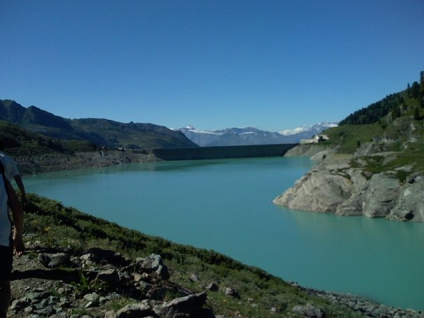 View of Lac de Cleuson from the west-bank, facing north towards the dam.